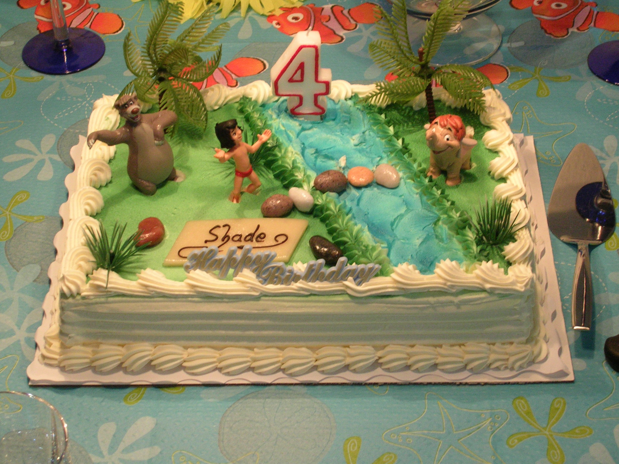 Birthdaycake